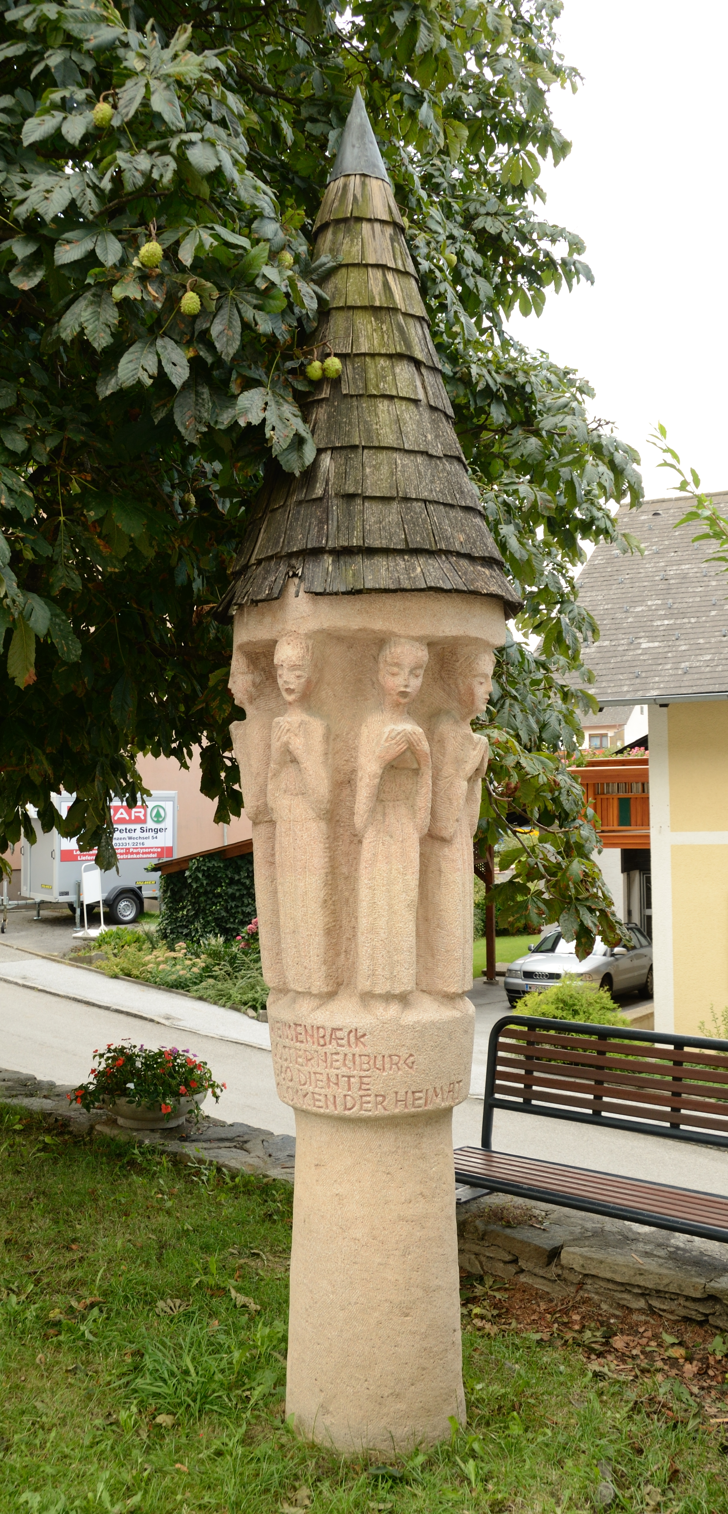 Memorial for Andreas Weißenbäck at Sankt Lorenzen am Wechsel, Styria. Andreas Weißenbäck, born in St. Lorenzen, was a musicologist.